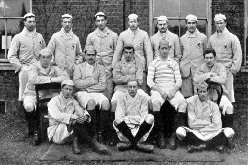 Cambridge University Rugby Union Club, 1890. Back Row (L-R): C.P.Simpson, W.I.Rowell, C.R.Nicholl, R.I.Aston, W.H.Thorman, R.Thompson, P.H.Illingworth. Seated: H.W.Patterson, G.McGregor, T.W.P.Storey, S.M.J.Woods, P.H.Morrison. On Ground: C.A.Hooper, A.Rotherham, F.C.Bree-Frink.